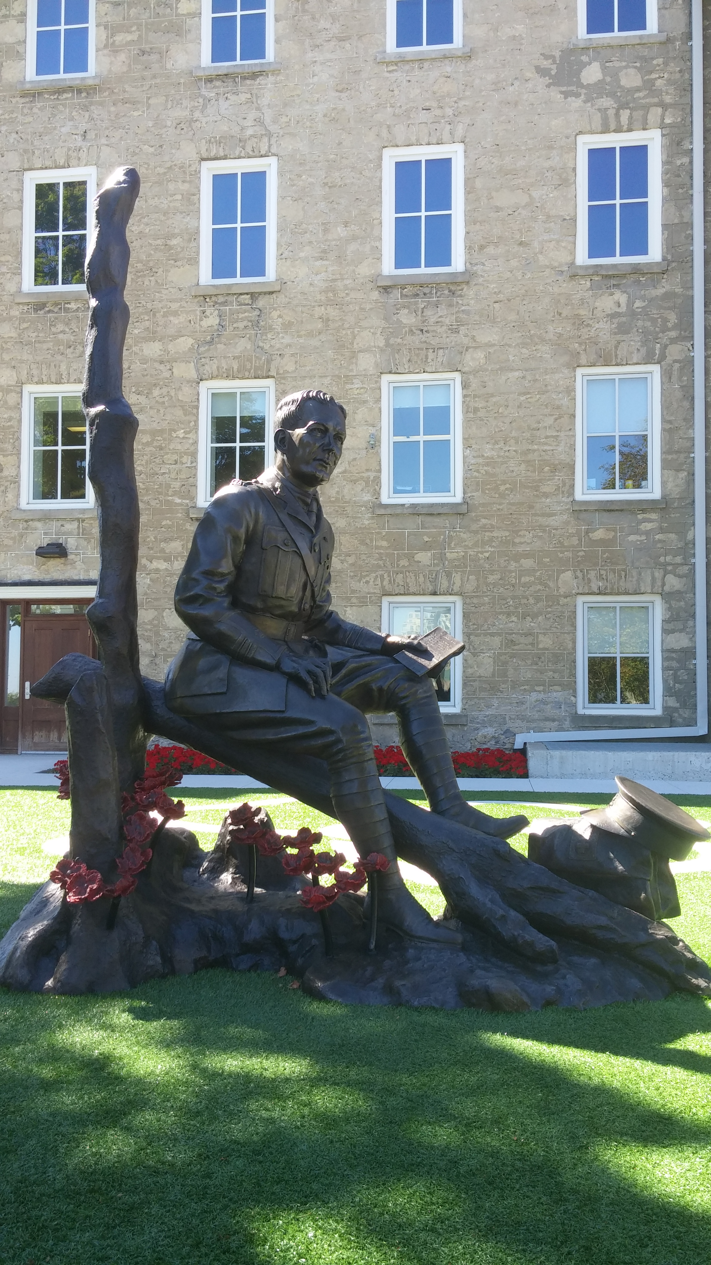 Colonel John McCrae statue at Guelph Civic Museum unveiled in May 2015 to commemorate the 100th anniversary of his poem "In Flanders Field" being first written.